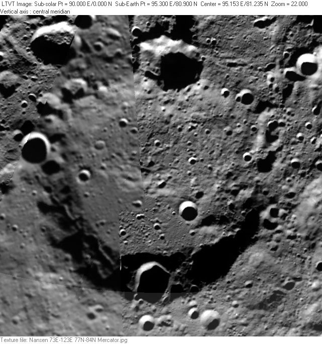 Image of moon crater Nansen from Clementine b/w data